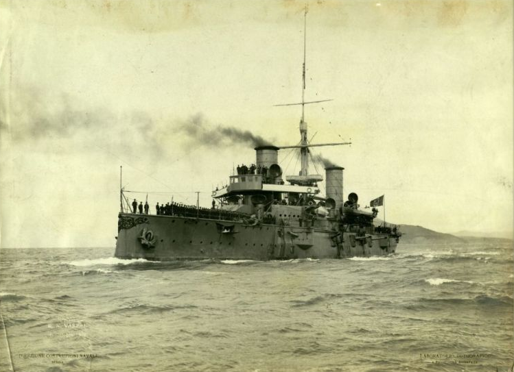 Italian cruiser Varese